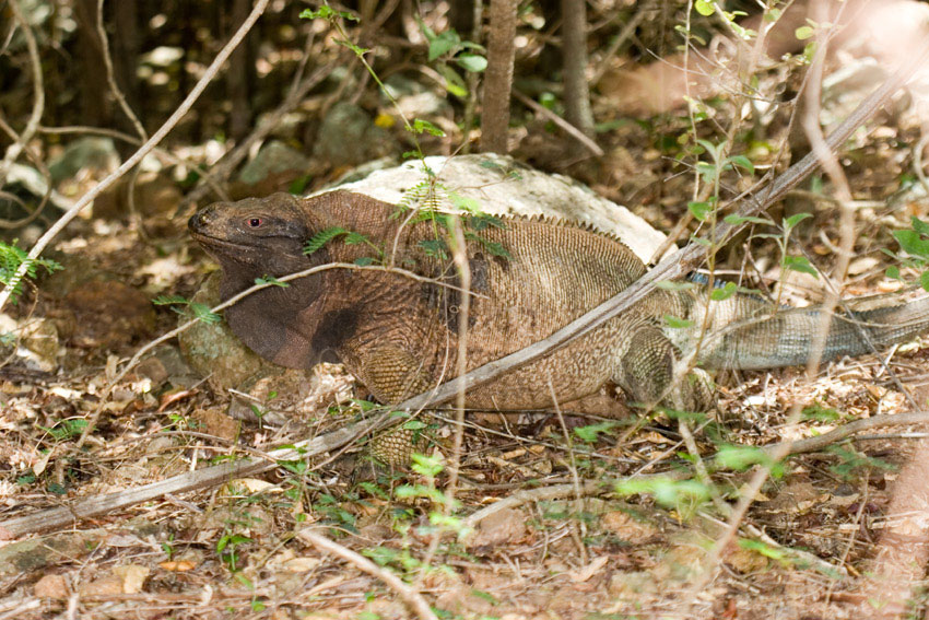 This is a picture of Cyclura pinguis taken by Father Alejandro Sanchez on Anegada, used with his permission.